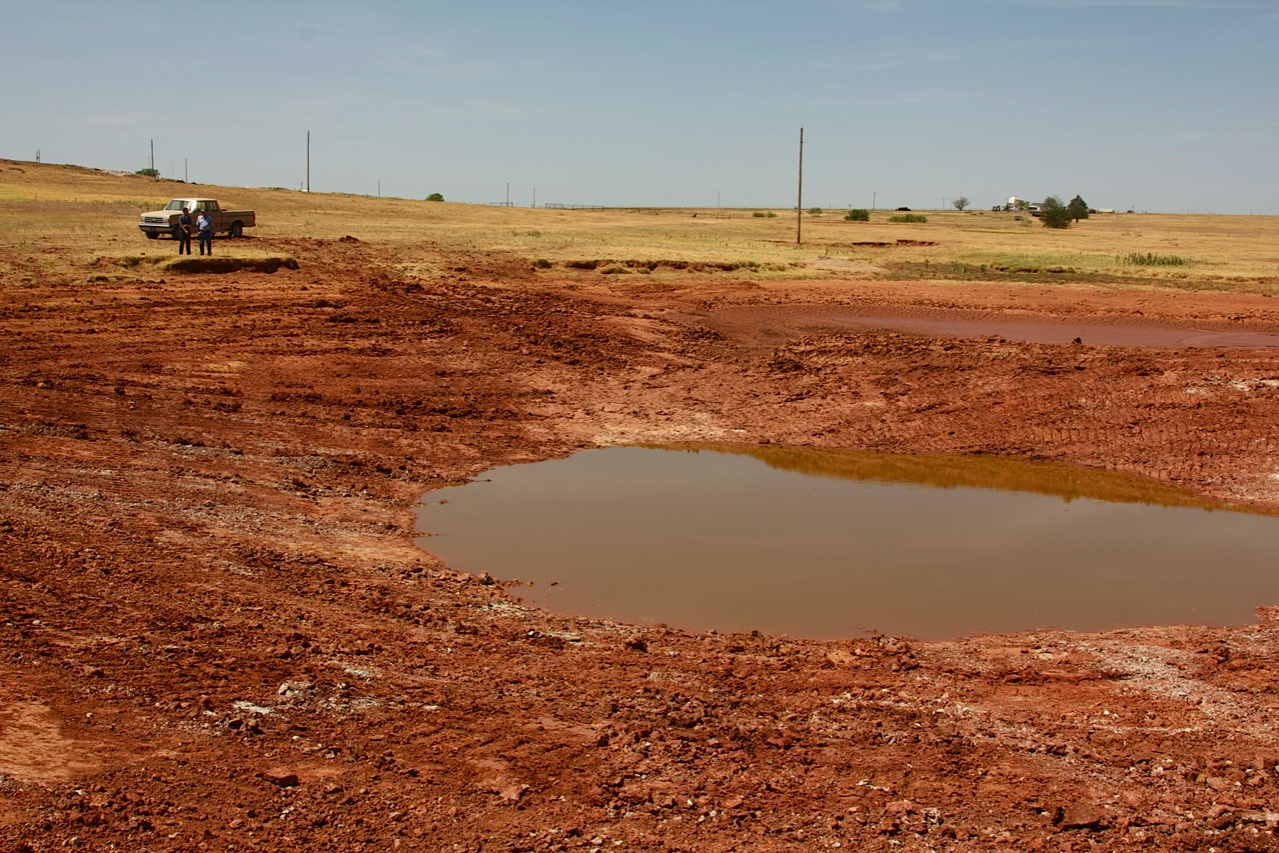 Ted Tripp was a young Oklahoma boy during the Dust Bowl but says he’s never seen the small lake behind his house empty. “I came here when I was six or seven years old. I’m now 88 and this is the first time that it’s been dry.”